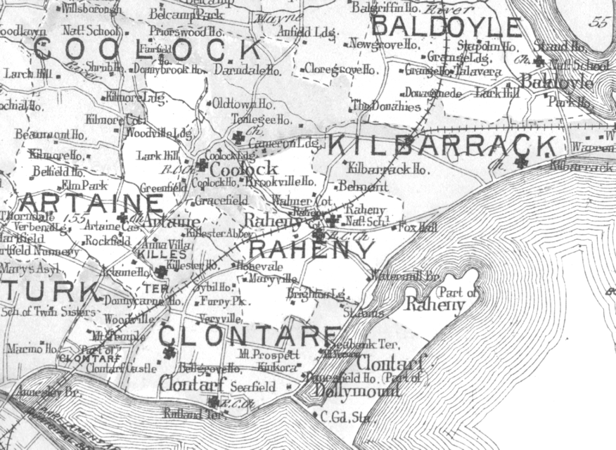 Dublin and north-eastern suburbs, with formal civic boundaries as at 1901